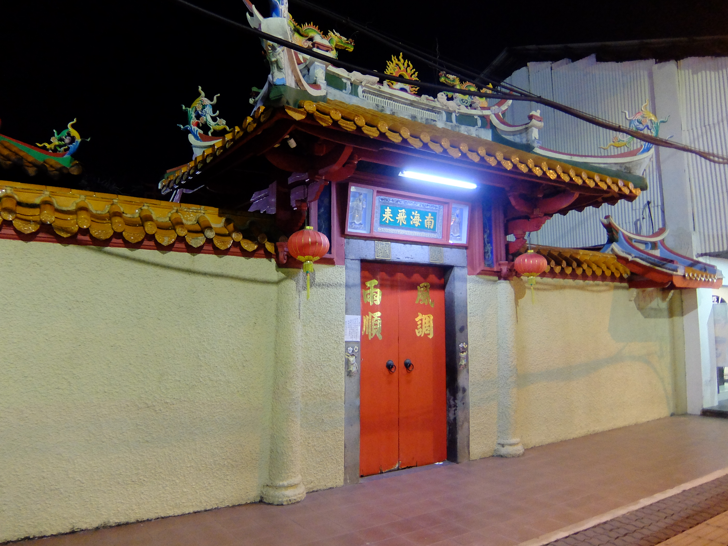 Nan Hai Fei Lai Temple, Bandar Maharani, Muar, Johor, Malaysia